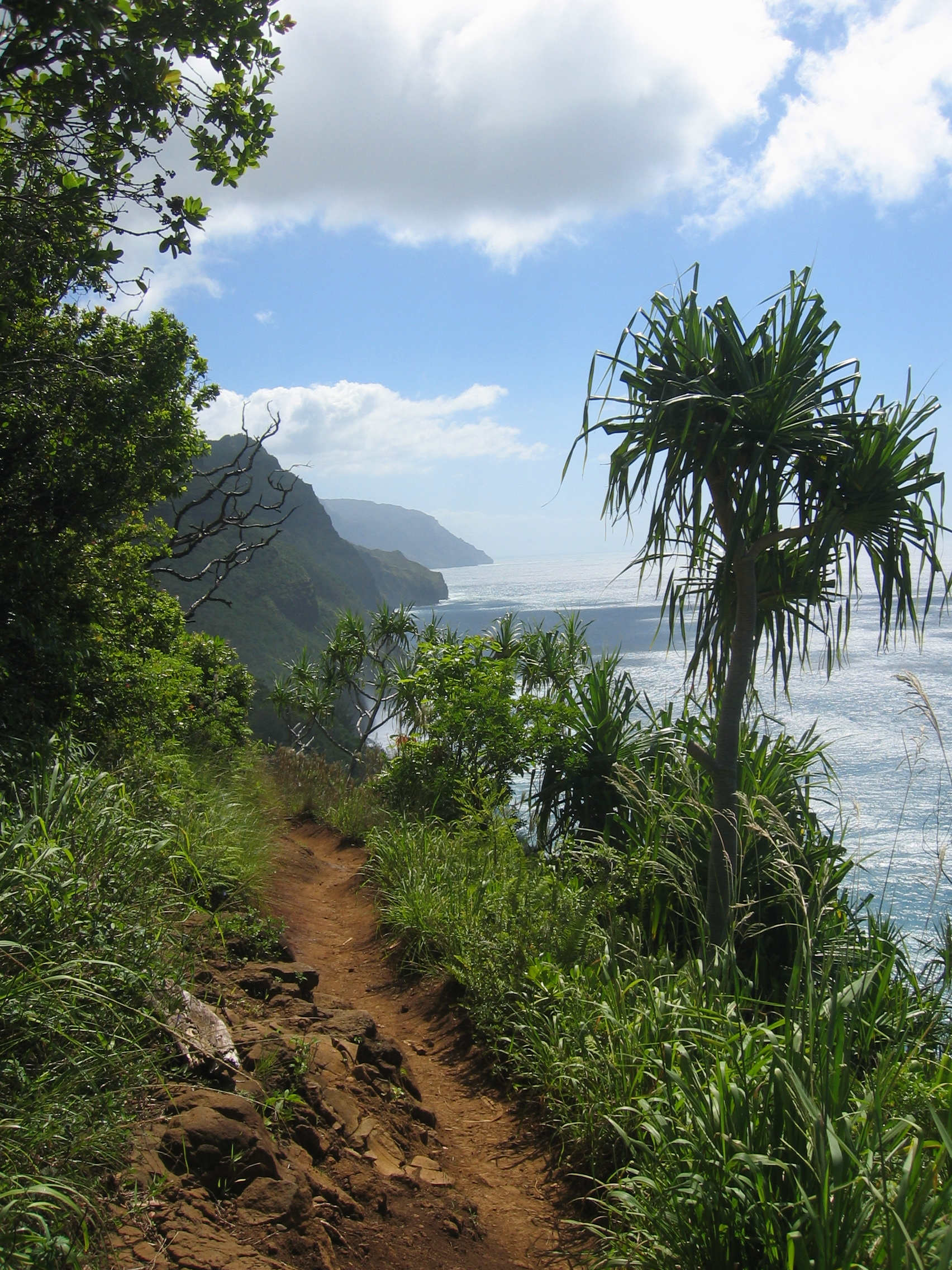 A scene from the first two miles of the Kalalau Trail along the Na Pali Coast of Kaua‘i.